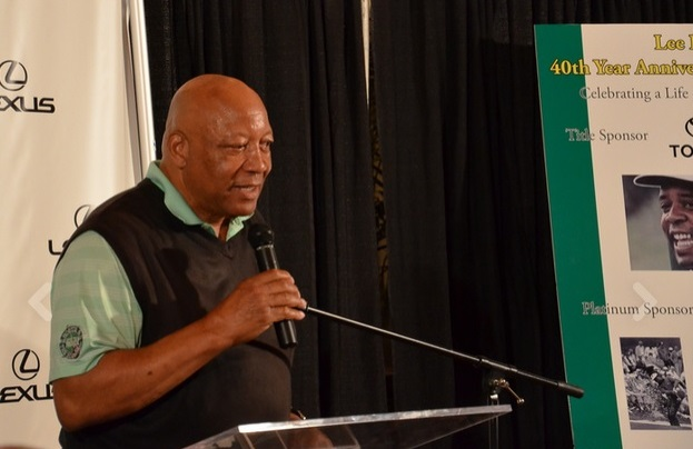 James "Bonecrusher" Smith speaks at an event for Champions for Kids.